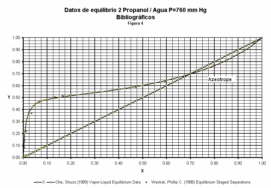 2propanol-Water Equilibria P=760 mm Hg